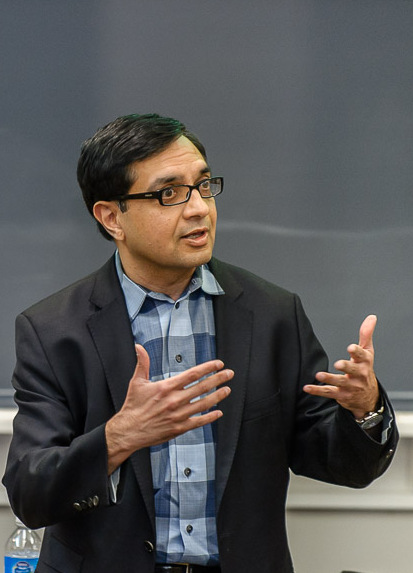 Sridhar Tayur at a Tepper School alumni event